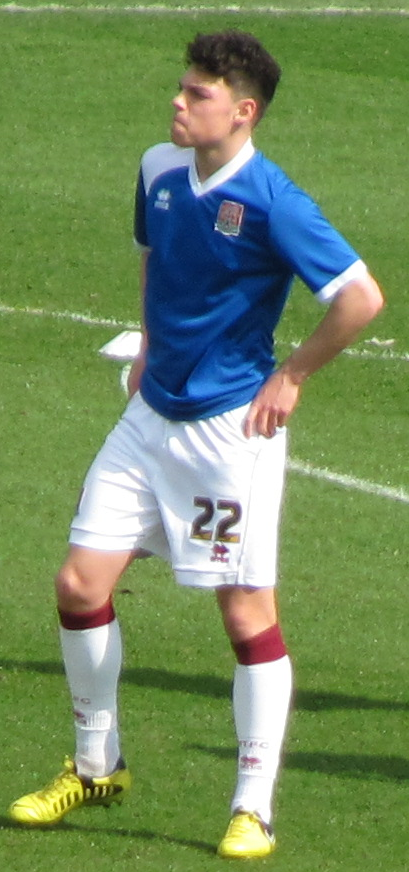 Pictured during the 2-2 draw between Port Vale and Northampton Town on 20 April 2013.